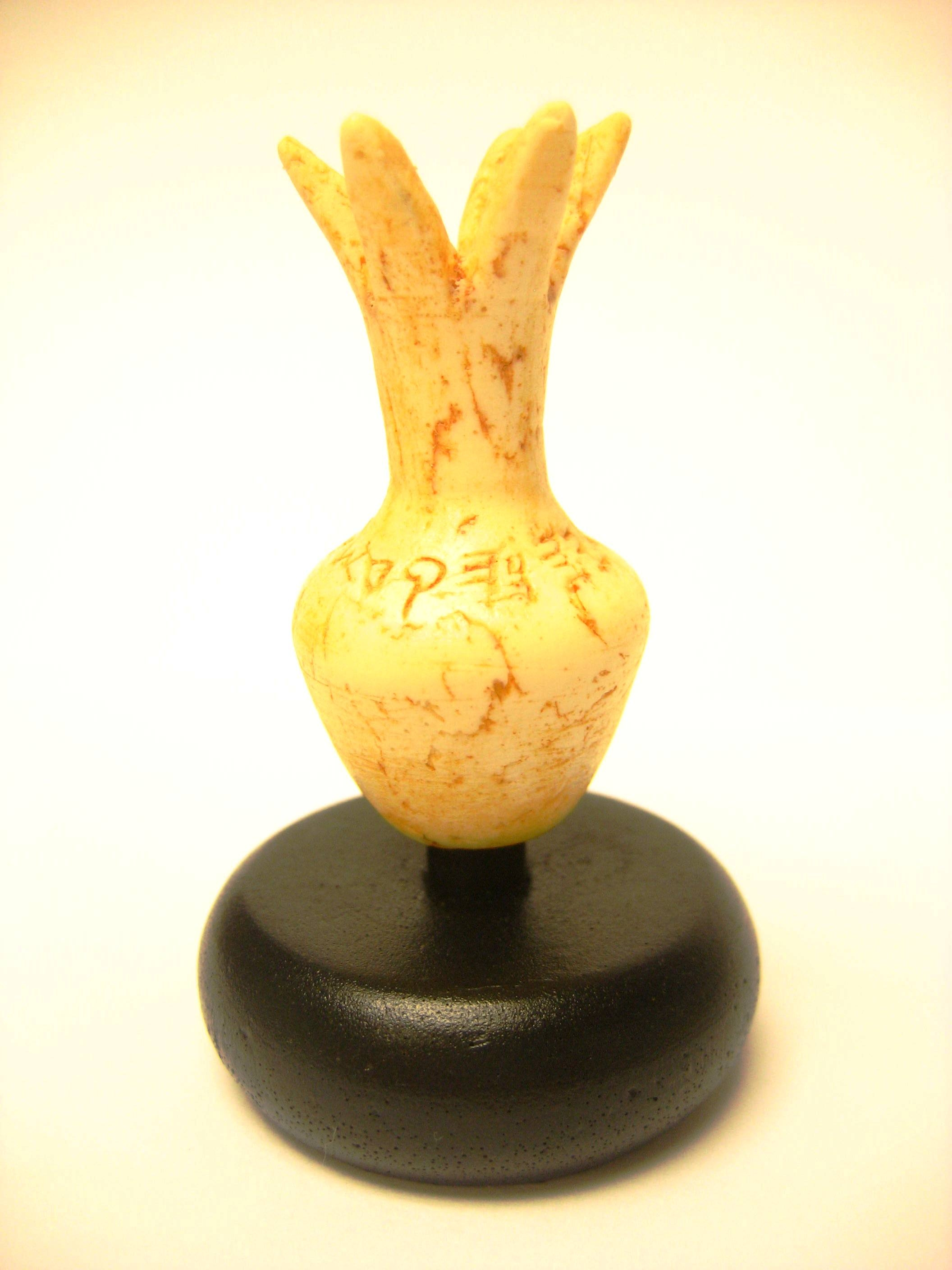 Personal photo of artifact replica.